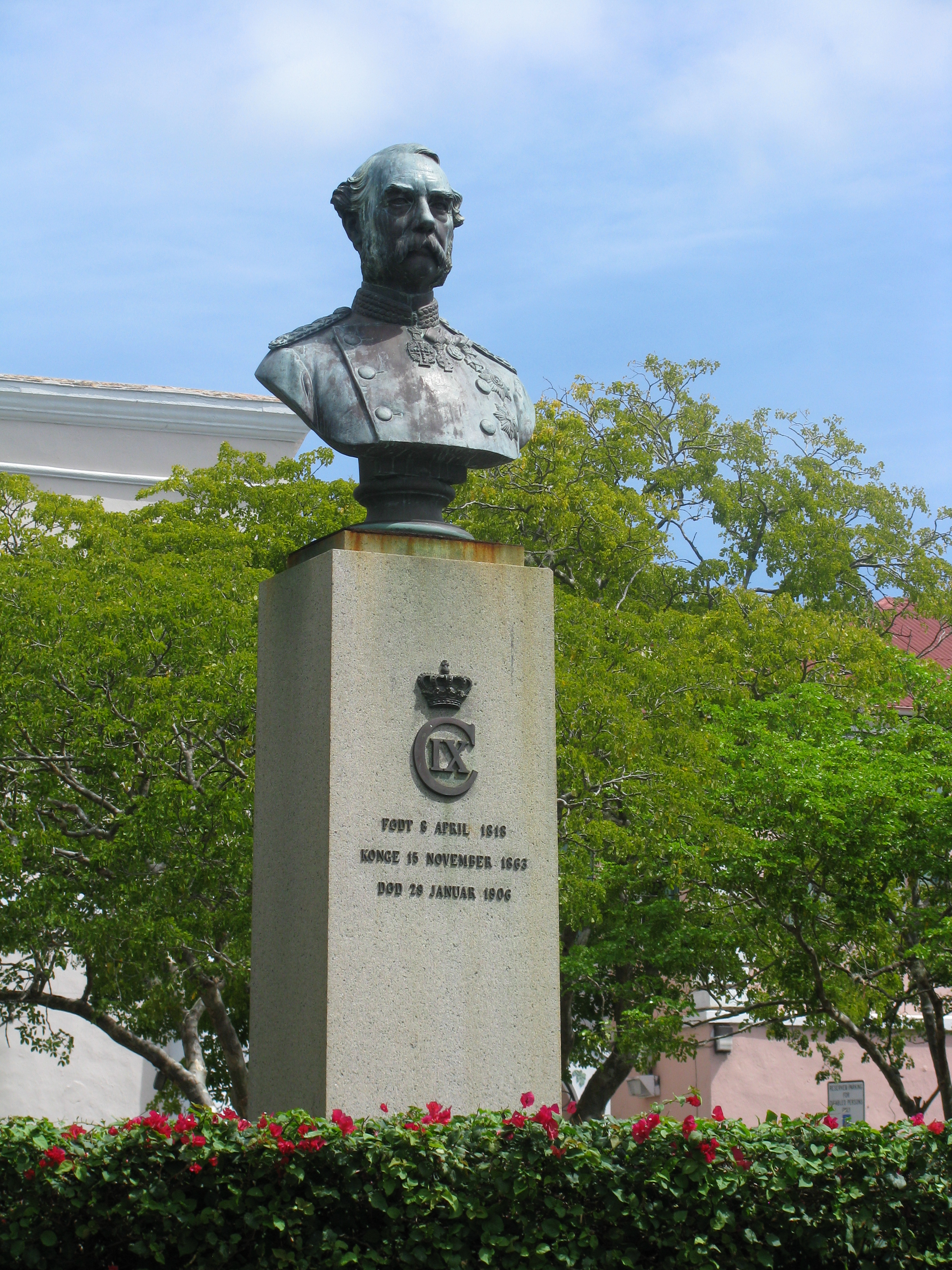 Statue of Christian IX of Denmark in Charlotte Amalie, United States Virgin Islands.